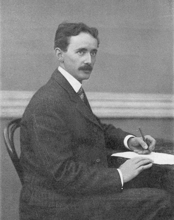 Photograph of D. McFarlan Moore, 1906. Taken by the light of a Moore Lamp. Originally printed in The Illuminating Engineer, June-July 1906. Published by the Moore Electrical Company.